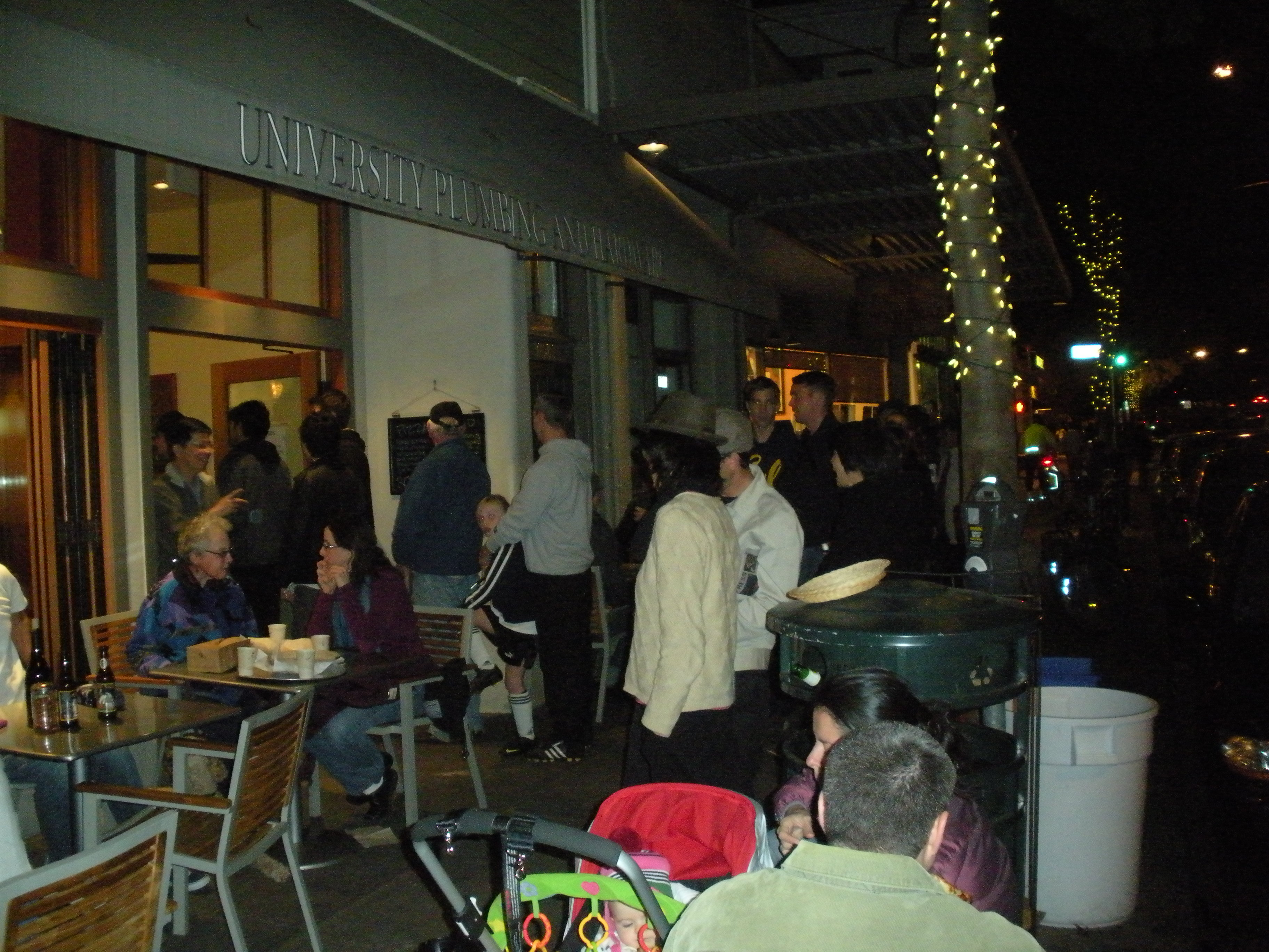 This is the exterior of Chesseboard Pizza, a popular restaurant in Berkeley, California. It is part of the Cheese Board Collective.